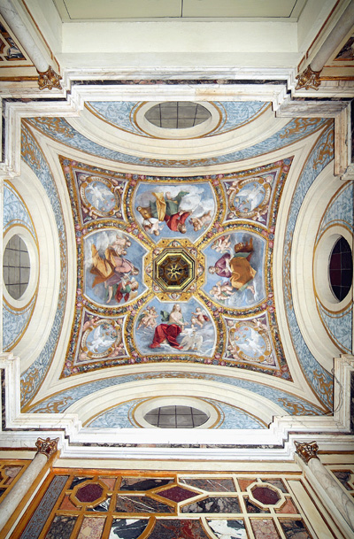 Este Castle of Ferrara, Ducal Chapel, fresco of the ceiling depicting the four Evangelists